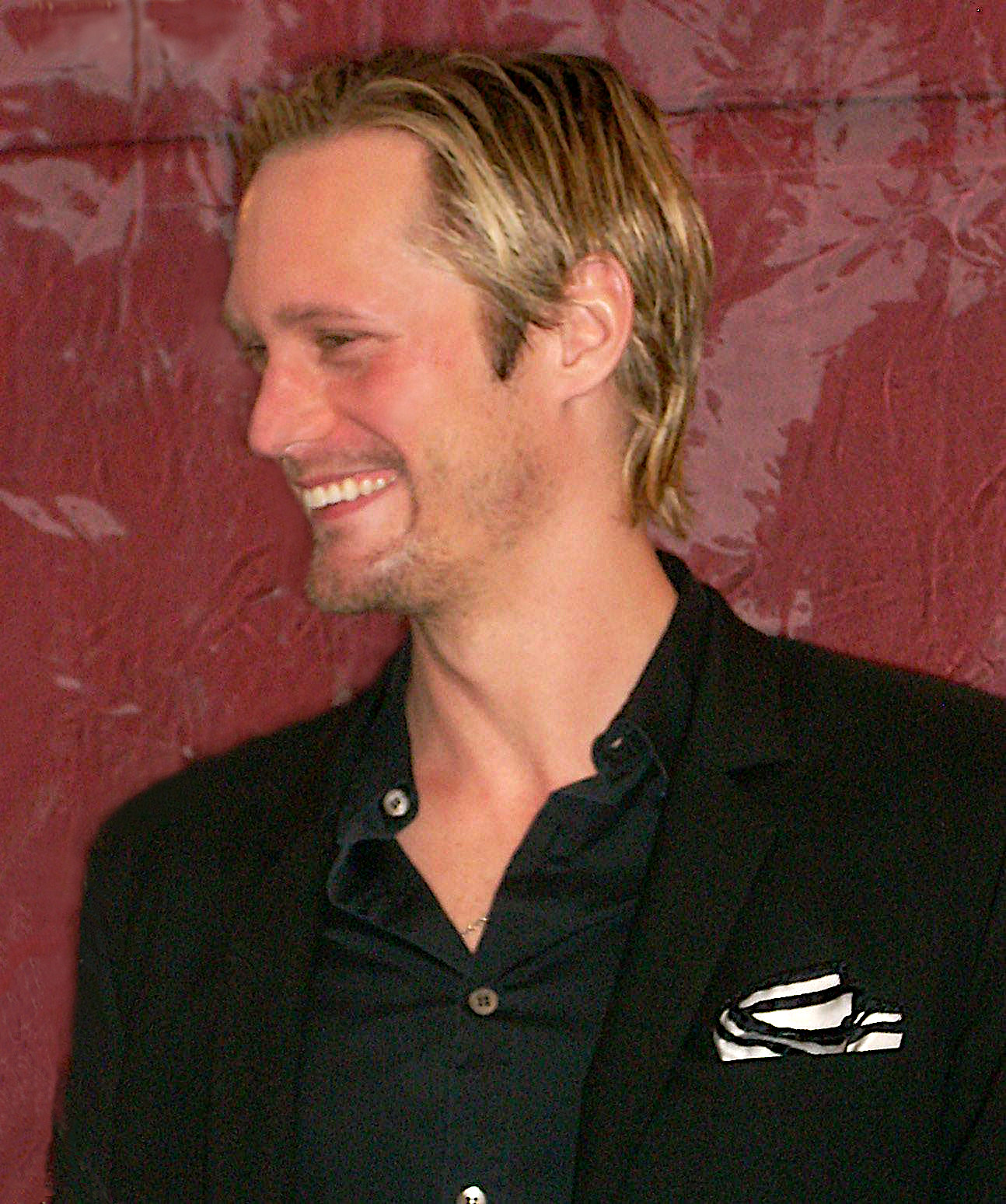 Actor Alexander Skarsgård - "True Blood" 25th Annual Paley Television Festival - ArcLight Cinemas, Los Angeles.